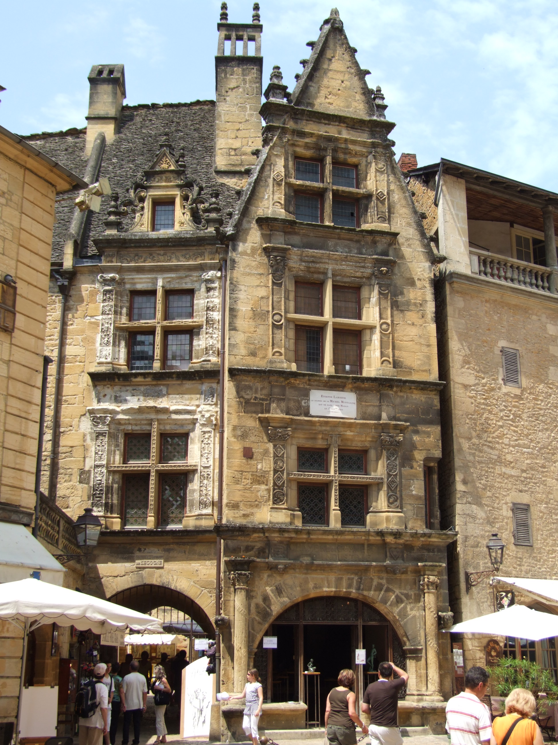 Sarlat-la-Canéda, Dordogne, FRANCE